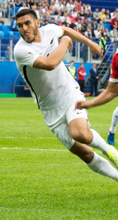 Aleksandr Yerokhin Michael Boxall Dmitry Poloz